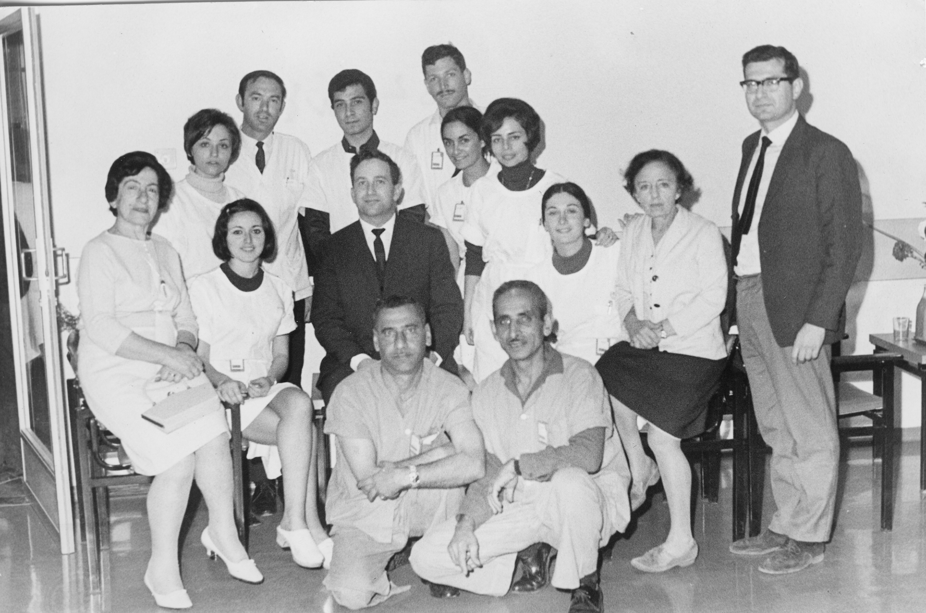 Prof. Robinson and the founding staff of Oncology